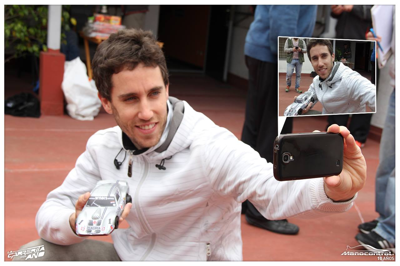 Esteban Guerrieri y su Baufer. La Carrerita del Año 2015.